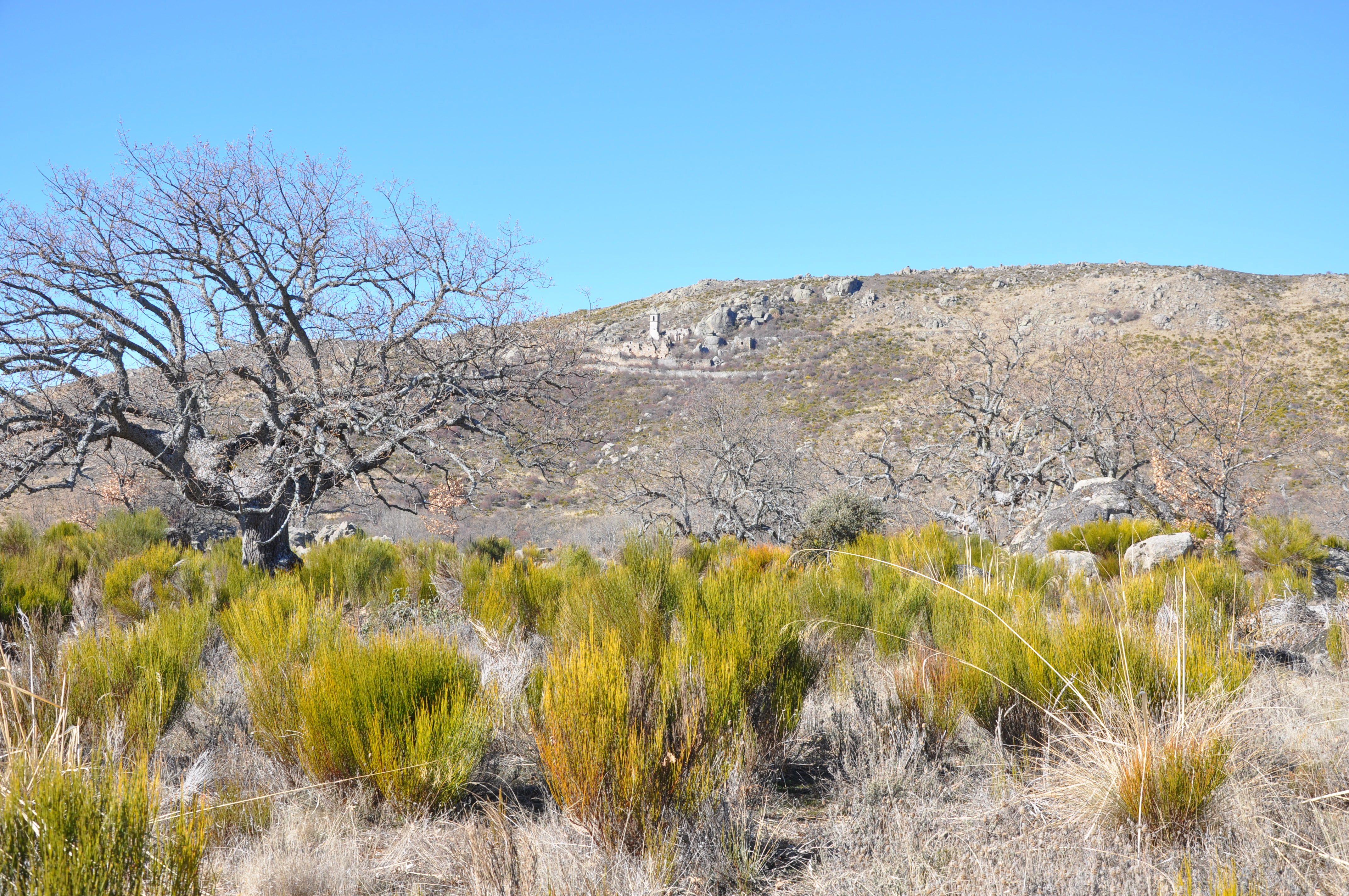 Ruins of the Augustinian Monastery of Nuestra Señora del Risco, Amavida, Ávila, Spain